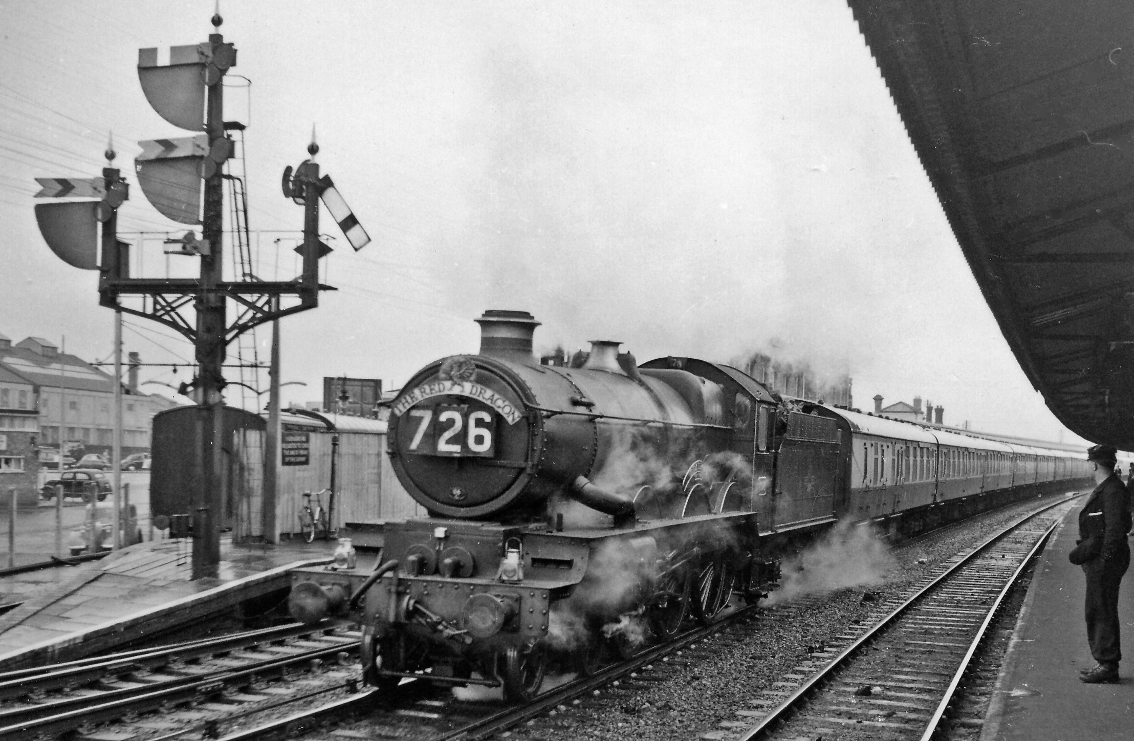 Up 'Red Dragon' pounds through Reading. View westward, towards the West, Swindon, Bristol, South Wales; ex-GWR main line from Paddington. The 'Red Dargon ' left Carmarthen 07.30 and reached Paddington - npn-stop from Cardiff - at 13.00. Here its locomotive is 'Castle' 4-6-0 No. 5078 'Beaufort' (built 5/39 as 'Lamphey Castle', renamed 1/41, withdrawn 11/62). The Through line at Reading was in those devoted to Up traffic.